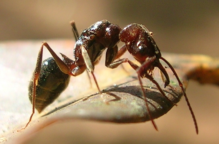 Odontomachus species ant from Wayanad, Kerala, India